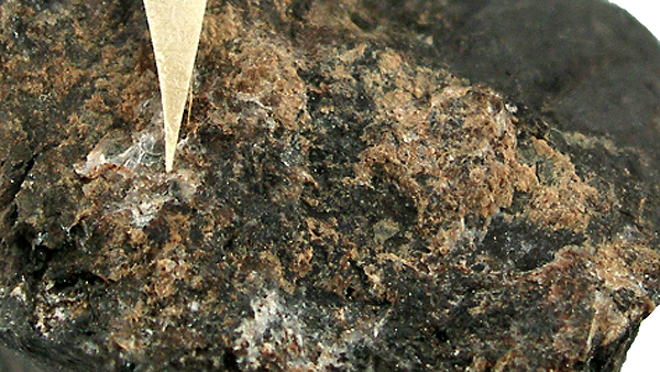 Cymrite Dimensions: 2.2 x 1.6 x 1.6 cm Locality: Benallt Mine (Tyddyn Meirion mine; Ty Canol mine), Rhiw, Llanfaelrhys, Lleyn Peninsula, Gwynedd, Wales, UK Description: A significant and rare micro of this barium aluminum silicate, from the type locality for the species. This specimen is from the American Museum. It was given to them by the British Museum and the AMNH label states on the reverse side: "Part of BM 1944,48" which we take to indicate that this was part of the BM-studied type material (in residence at that time at the BMNH before publication in 1949). From the #1 Orebody.